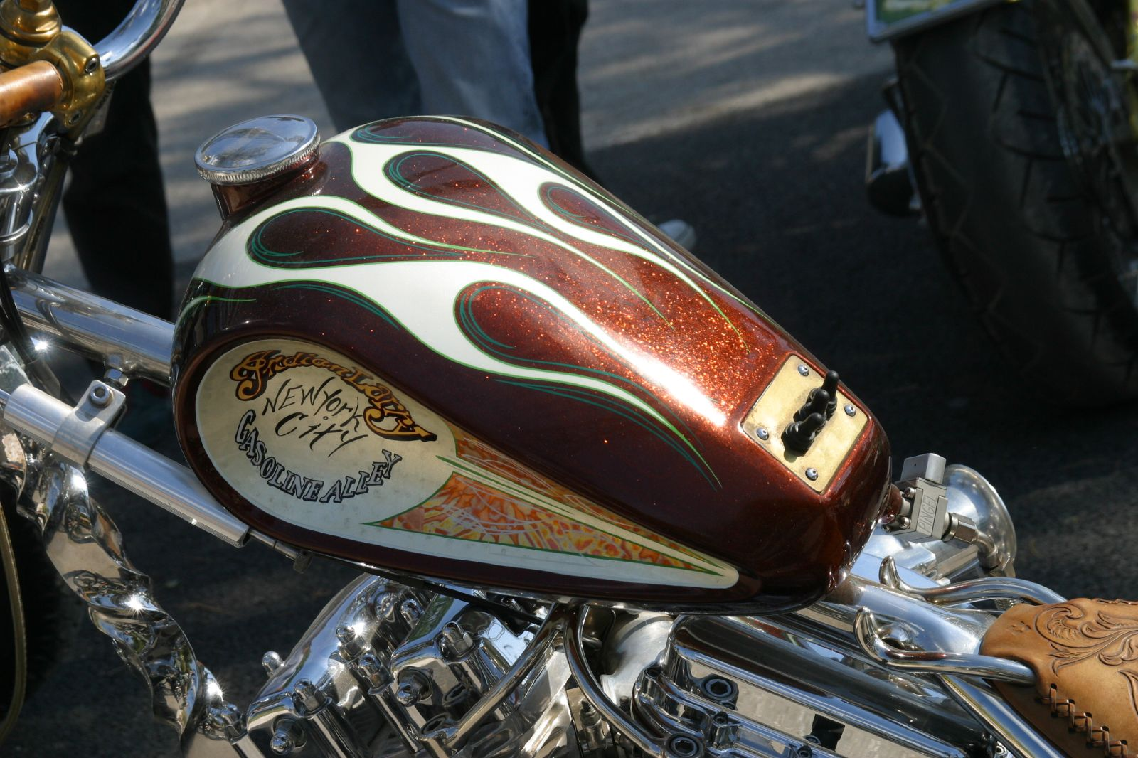 Image shows detail of Indian Larry's chopper, Wild Child, which he built as part of a Biker Build-Off program in 2003. The gas tank features root beer metal-flake paint with white flames trimmed in green pinstripe. Also visible in this photo is part of the twisted down tube.